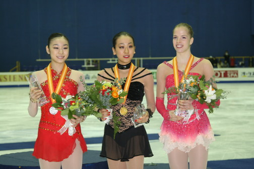 The ladies podium at the 2008-2009 Grand Prix of Figure Skating Final. From left: Kim Yu-Na (2nd), Mao Asada (1st), Carolina Kostner (3rd).